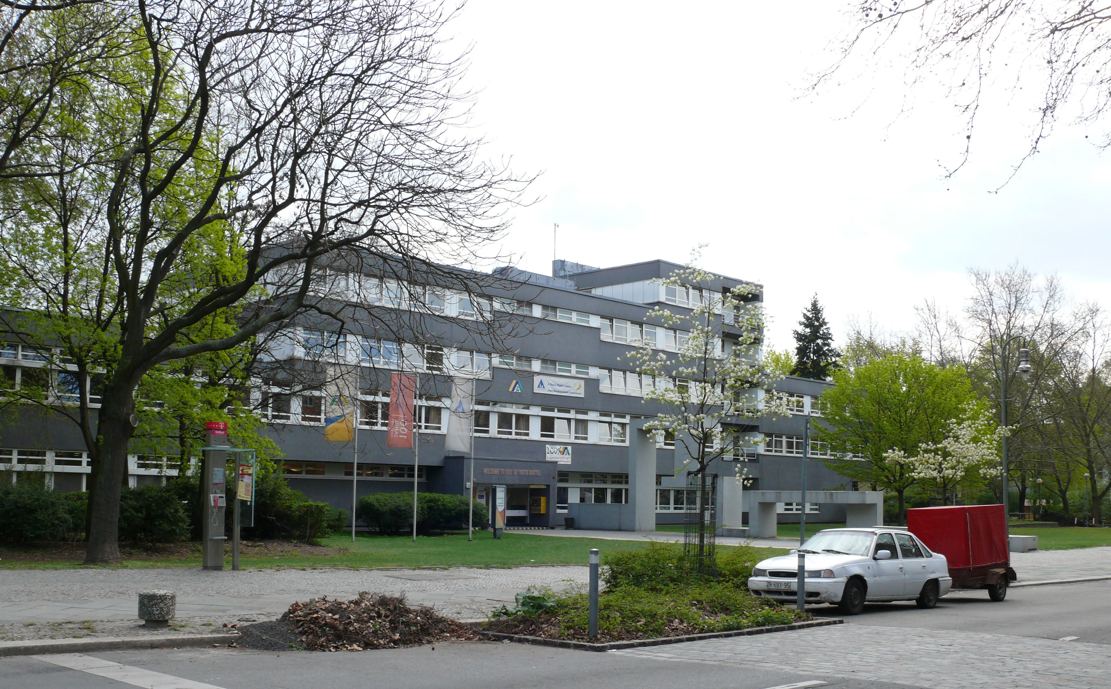 Berlin-Tiergarten Kluckstraße